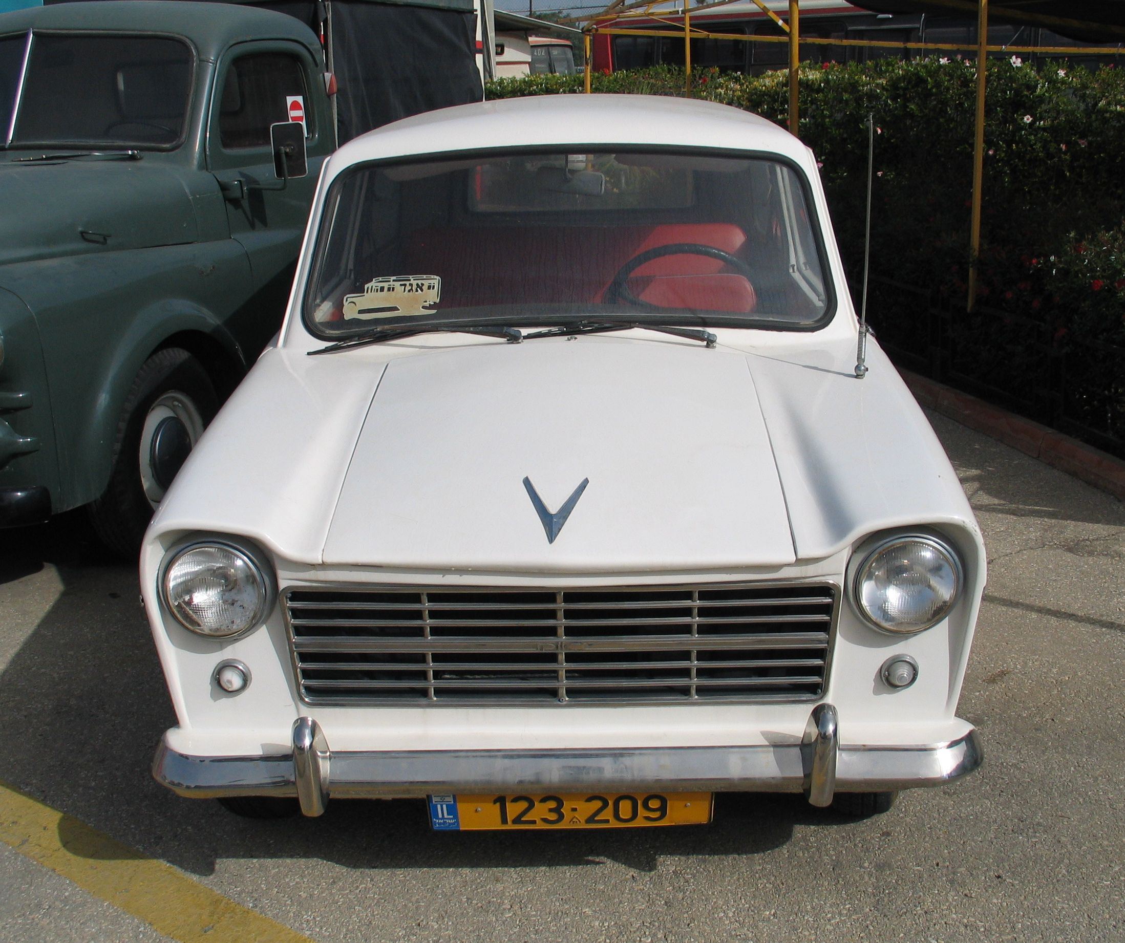 Autocars Susita 12/50, in the Egged Museum, Holon, Israel.